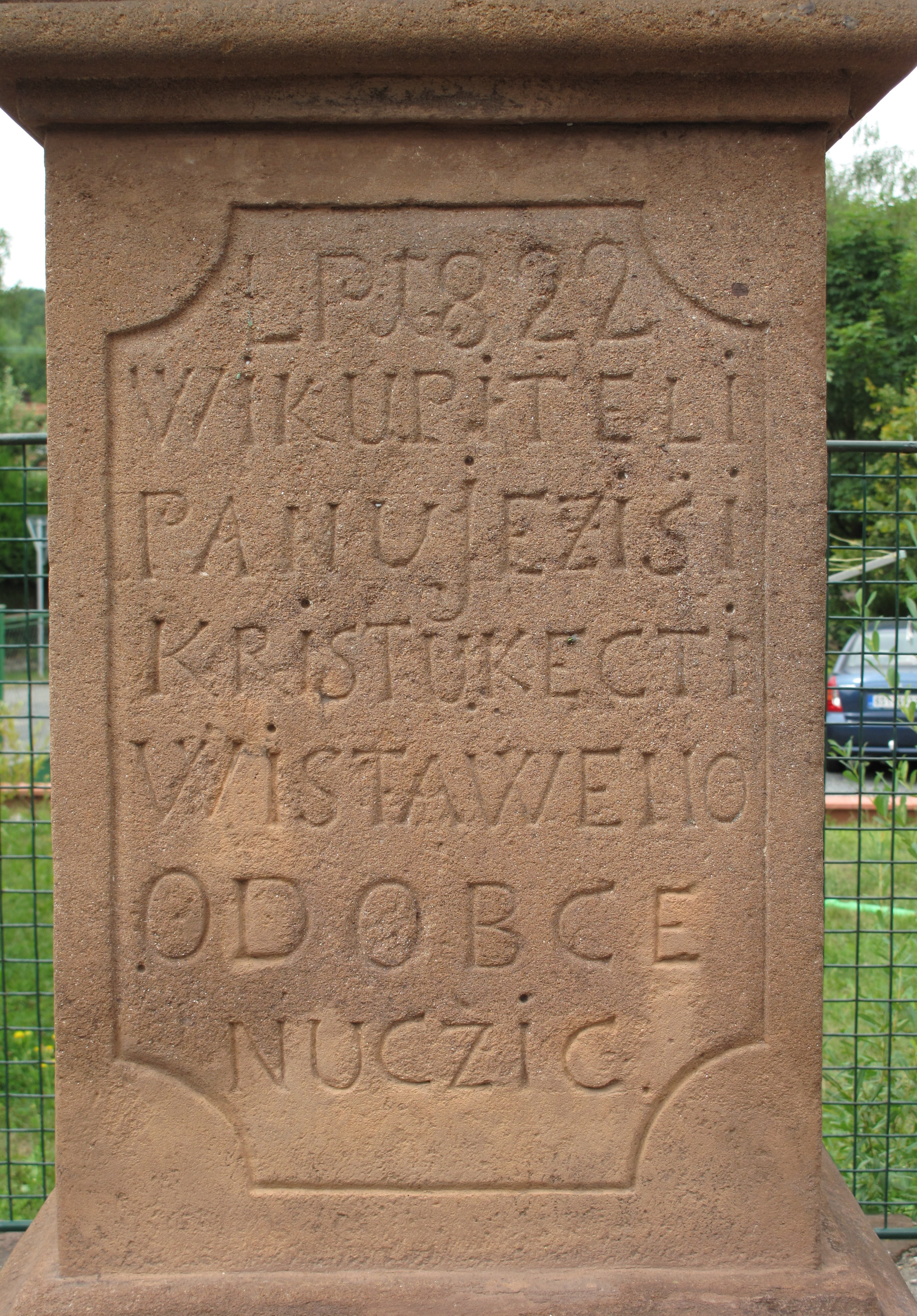 This photograph was taken within the scope of the second year of the 'Czech Municipalities Photographs' grant.